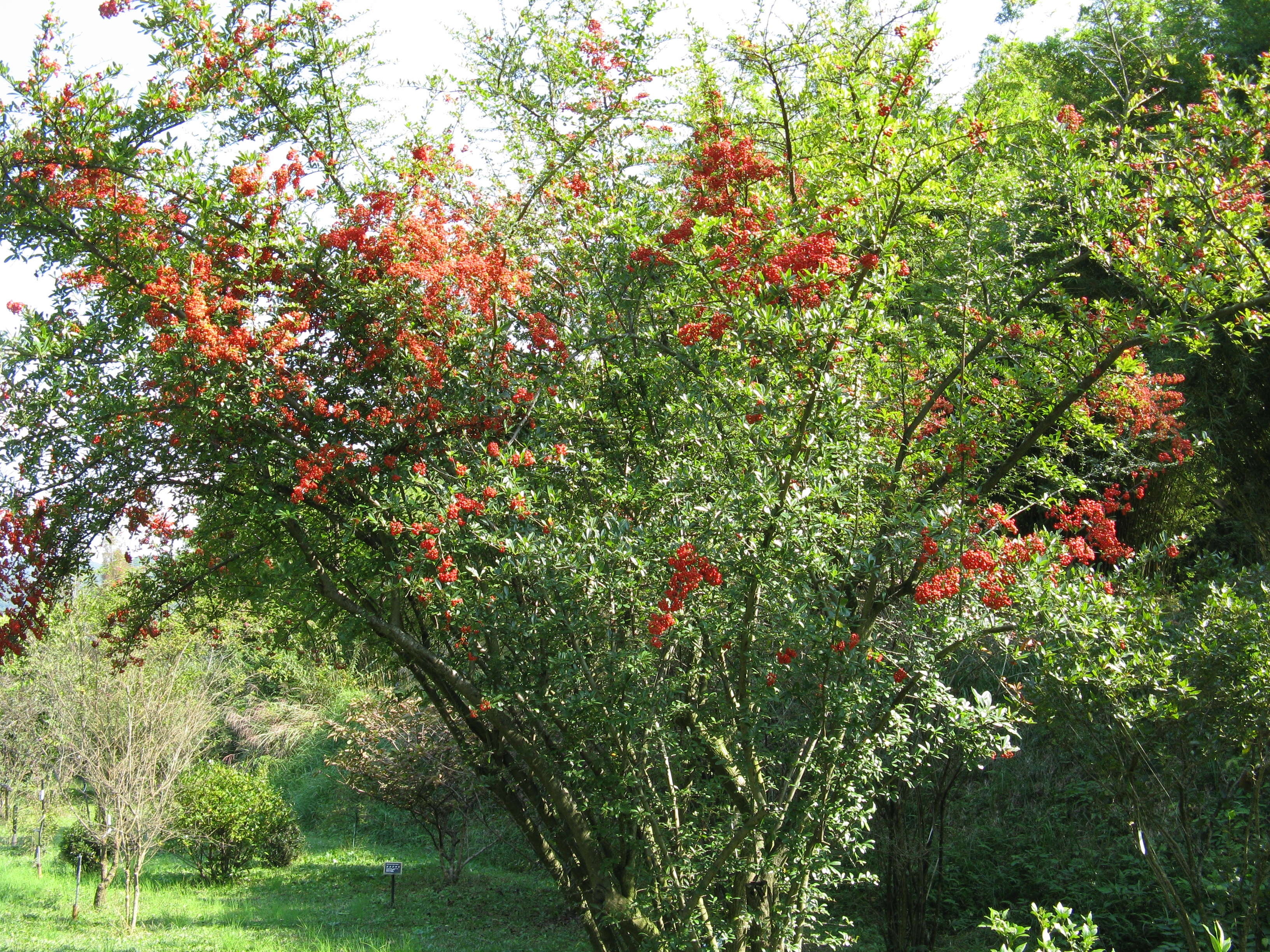 Scientific name Pyracantha coccinea